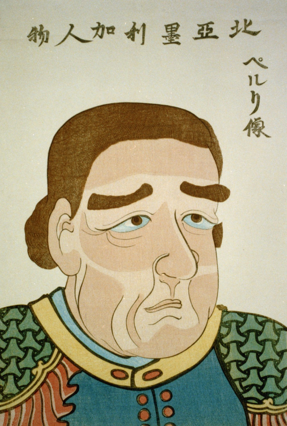 Japanese print showing head-and-shoulders portrait of Commodore Matthew C. Perry. 1 print on hōsho paper : woodcut, color ; 37.2 x 25 cm (block), 37.4 x 25.4 cm (sheet). The characters located across the top read from right to left, “A North American Figure” and “Portrait of Perry." According to the Peabody Essex Museum, this print may be one of the first depictions of westerners in Japanese art, and exaggerates Perry's western features (oblong face, down-turned eyes, bushy brown eyebrows, and large nose).[1]